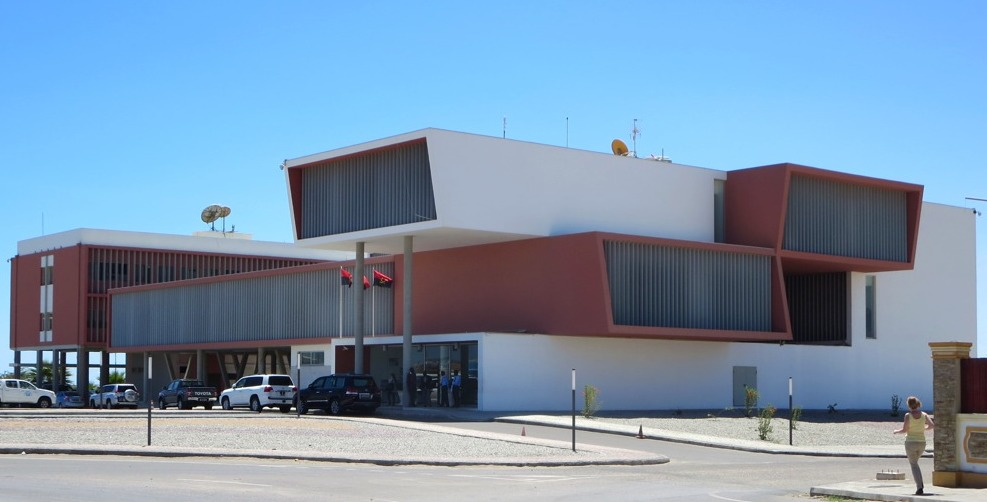 The new Governo Provincial do Namibe building in Namibe, Angola, houses the local administration.